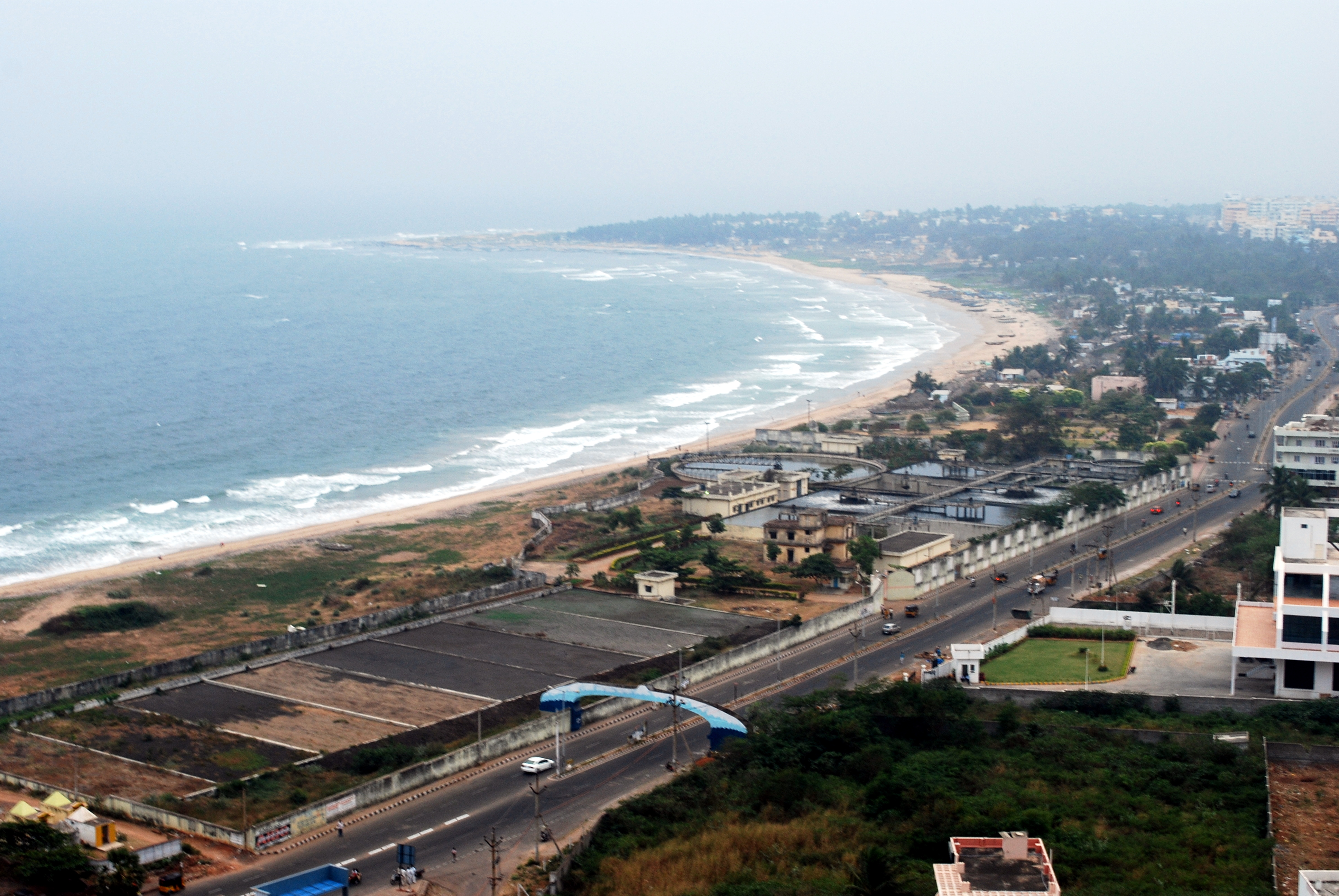 Ramakrishna Beach. View of R K Beach in Visakhapatnam (Vizag) from Kailasagiri, Visakhapatnam.